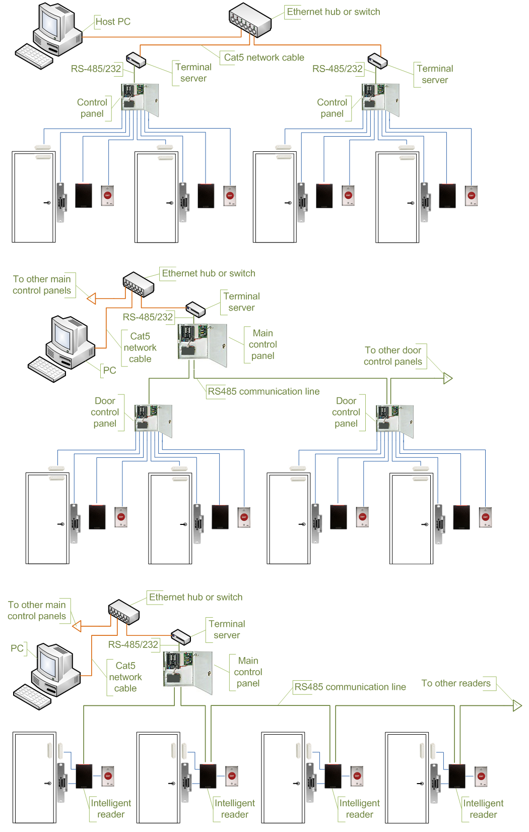 Access control system diagrams, using terminal servers.